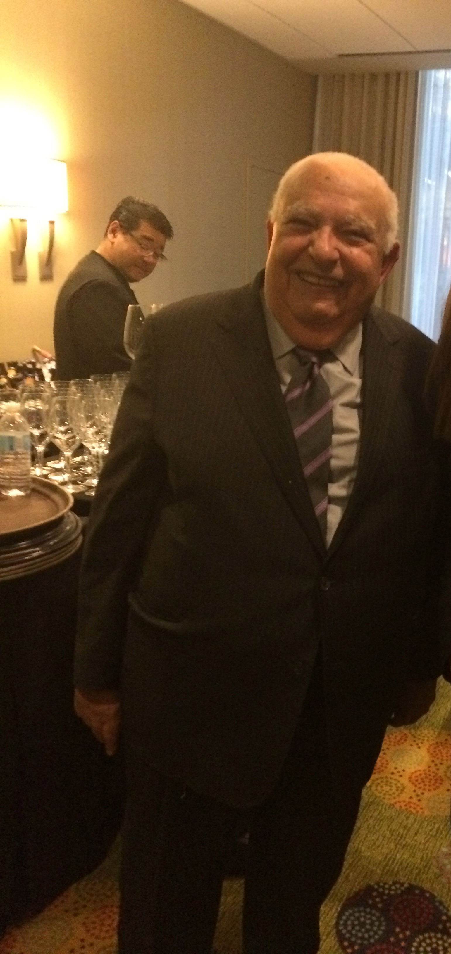 Adel Sedra and Emily Allstot at International Solid State Circuits Conference on February 23, 2015 in San Francisco, CA